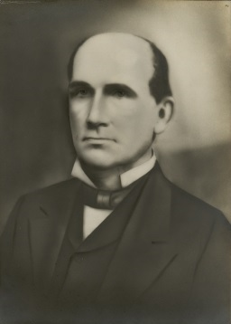 Lemuel D. Evans (Texas judge and Congressman)